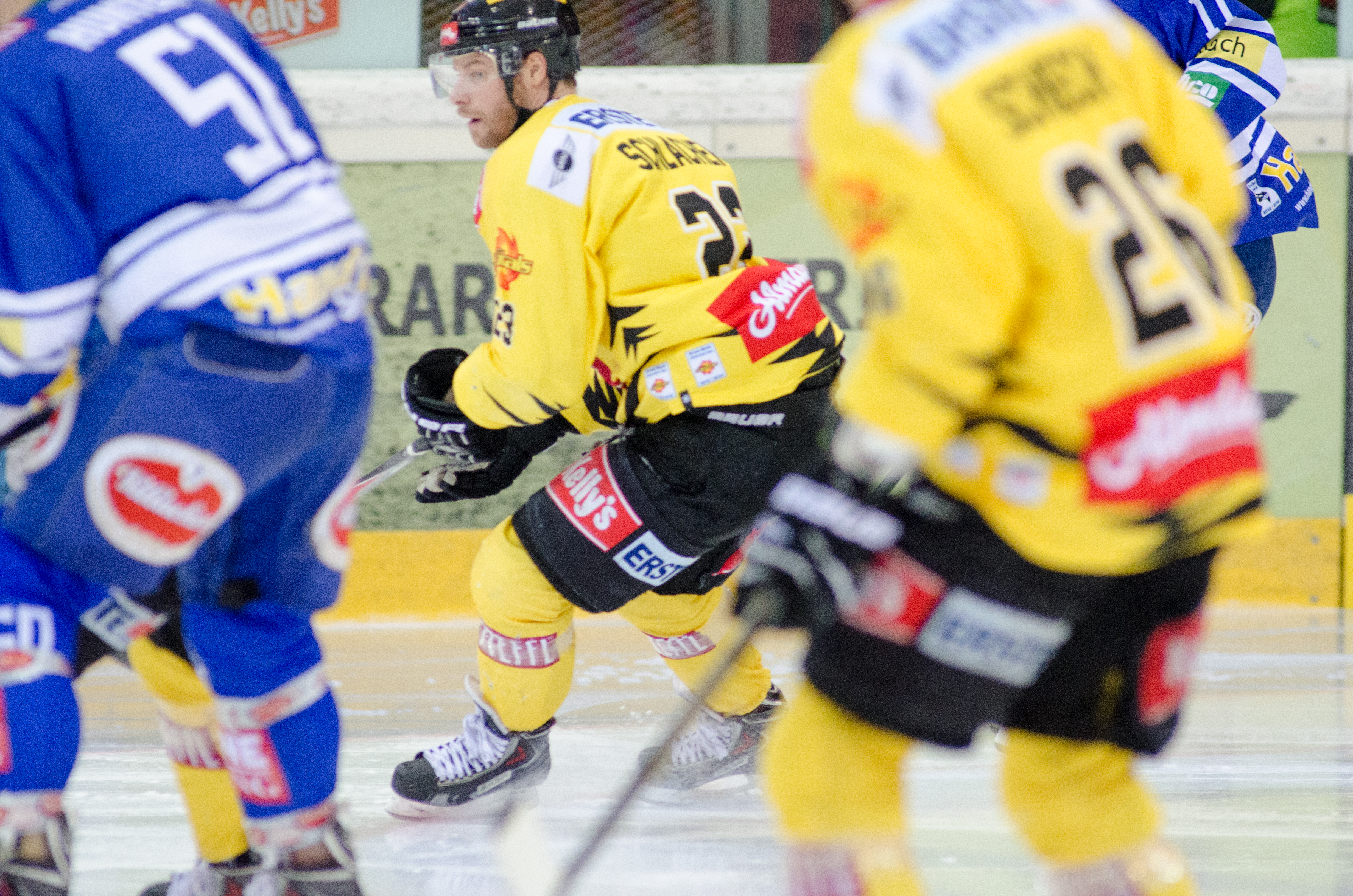 14.03.2014,Stadthalle Villach,Villach, AUT,Play Off Viertelfinale, EC VSV vs. UPC Vienna Capitals, im Bild Markus Schlacher #23 ///, stewo Pictures © 2014, PhotoCredit: stewo/ Stephan Woldron